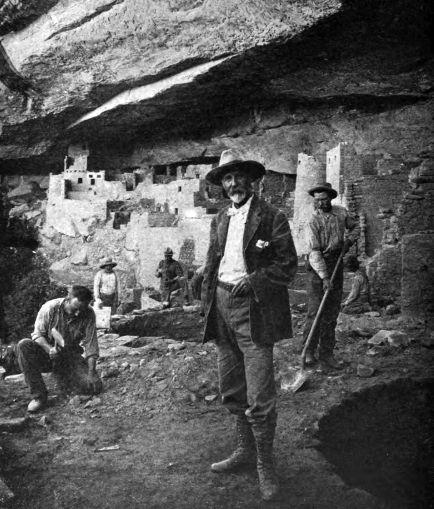 Dr J Walter Fewkes of the Smithsonian Insitution directing the work fo excavation and repair at the Mesa Verde Dwellings.